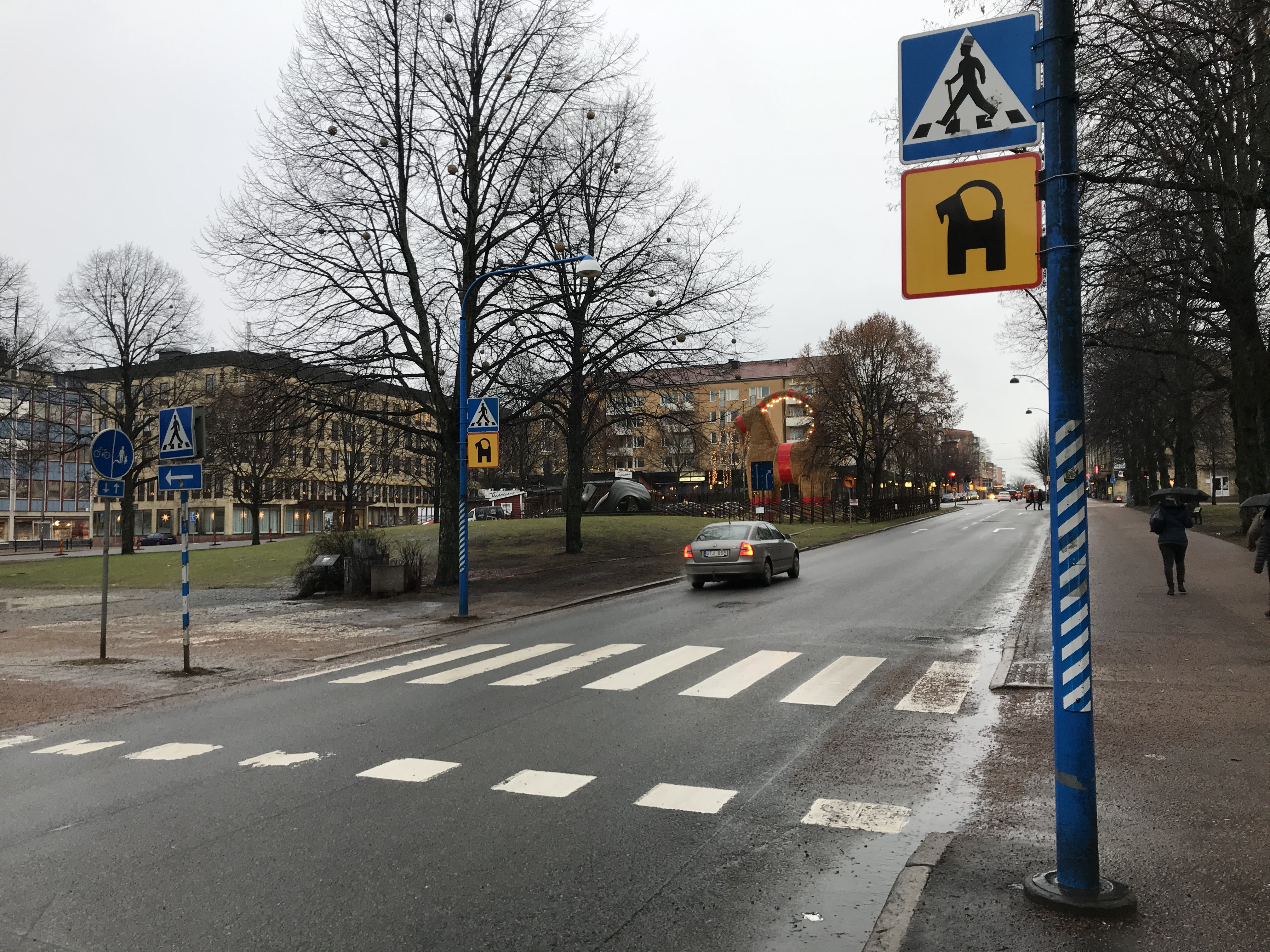 New pedastrian crossings marked with special traffic signs were introduced in 2019, to enable an easier access to Gävle goat. December 22, 2019.